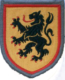 coat of arms of the Bundeswehr (Armed Forces of the Federal Republic of Germany). → Remarks on naming and categorization scheme